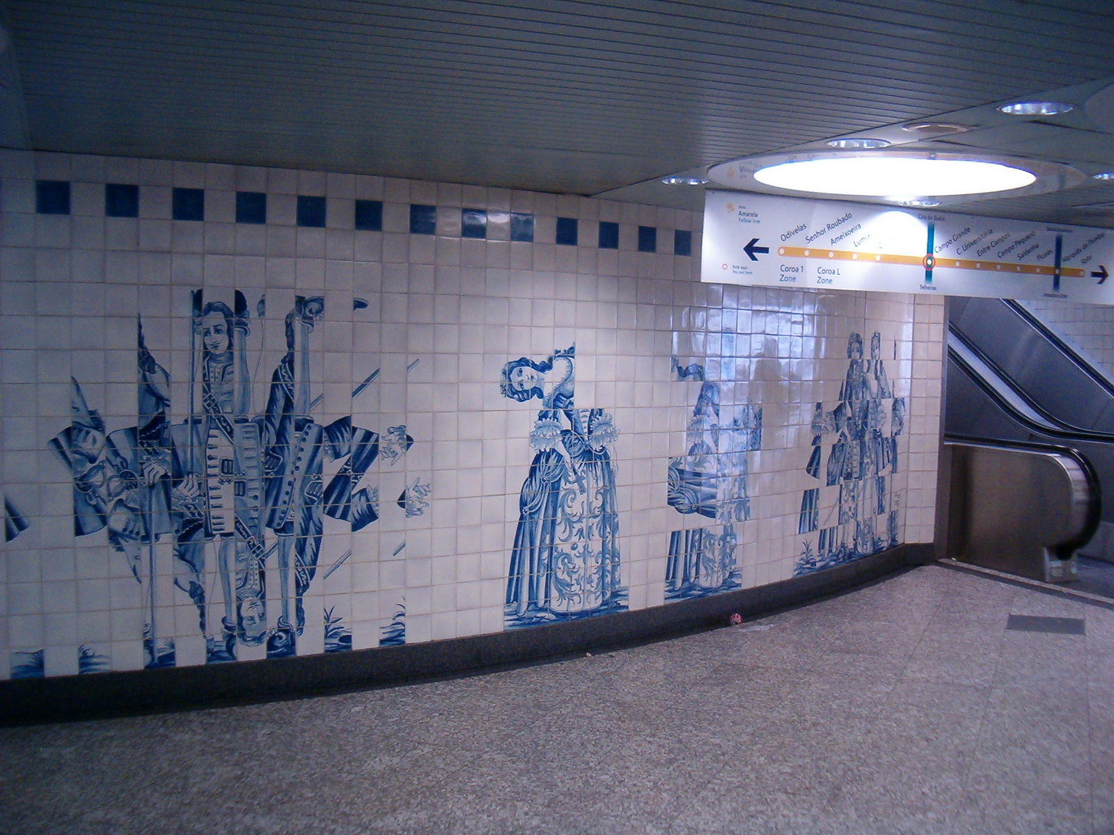 Metro station Campo Grande (Lisboa); azulejos panel by Eduardo Nery